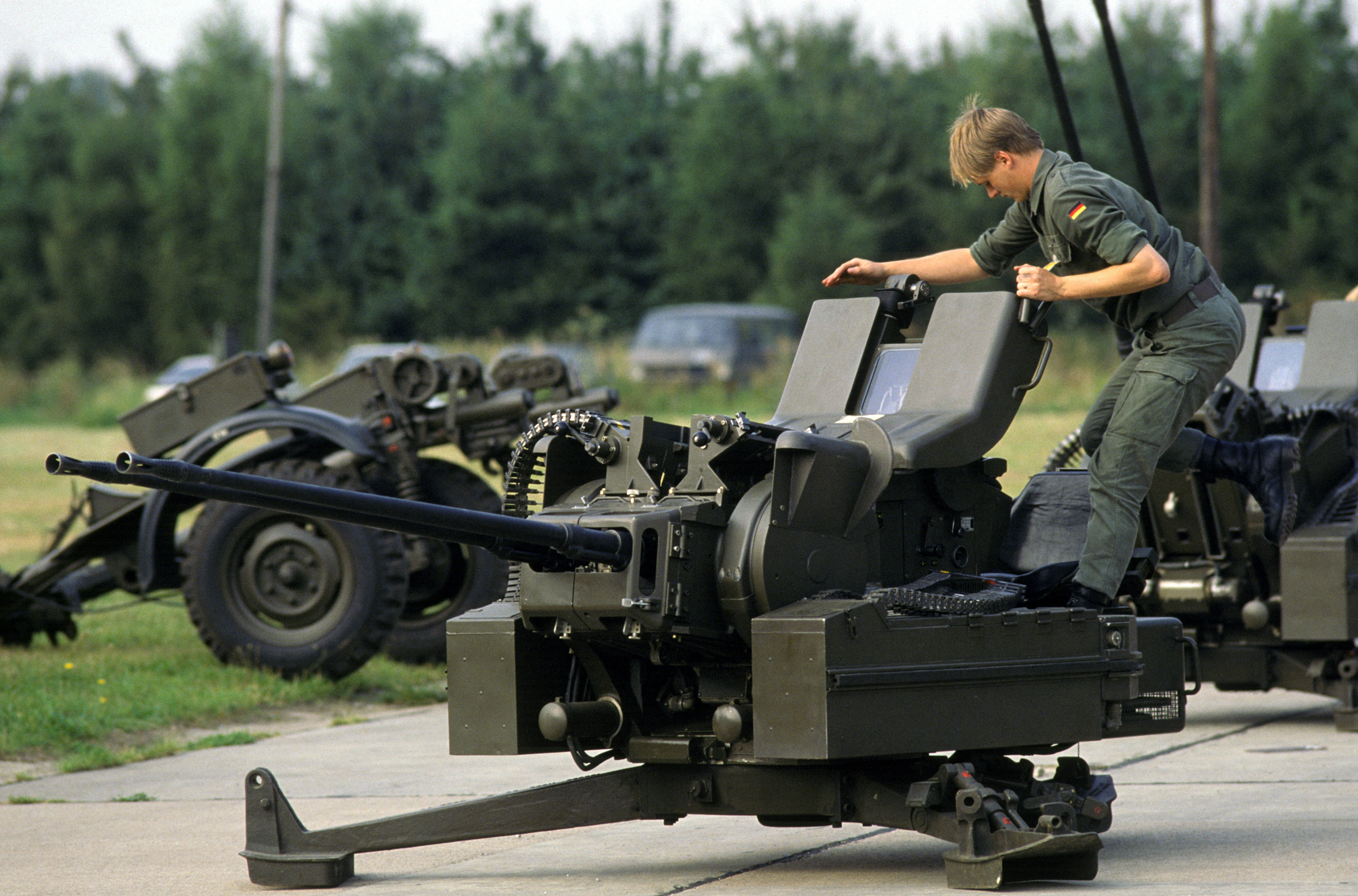 A Luftwaffe airman jumps into the seat of a 20 mm anti-aircraft gun to inspect its operation.